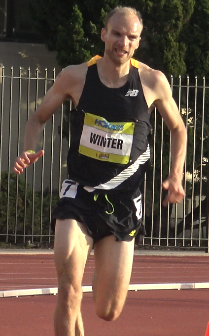 Chris Winter at the 2016 Hoka One One Middle Distance Classic, at Occidental College, May 10, 2016